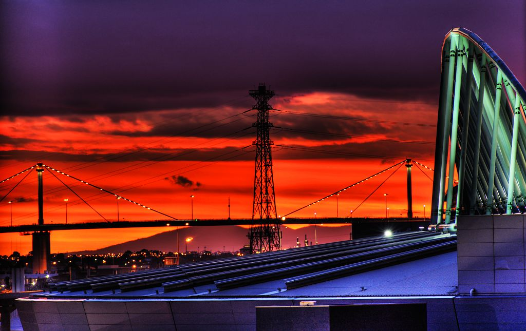 Melbourne, Australia: the West Gate Bridge with the Telstra Dome in the foreground.